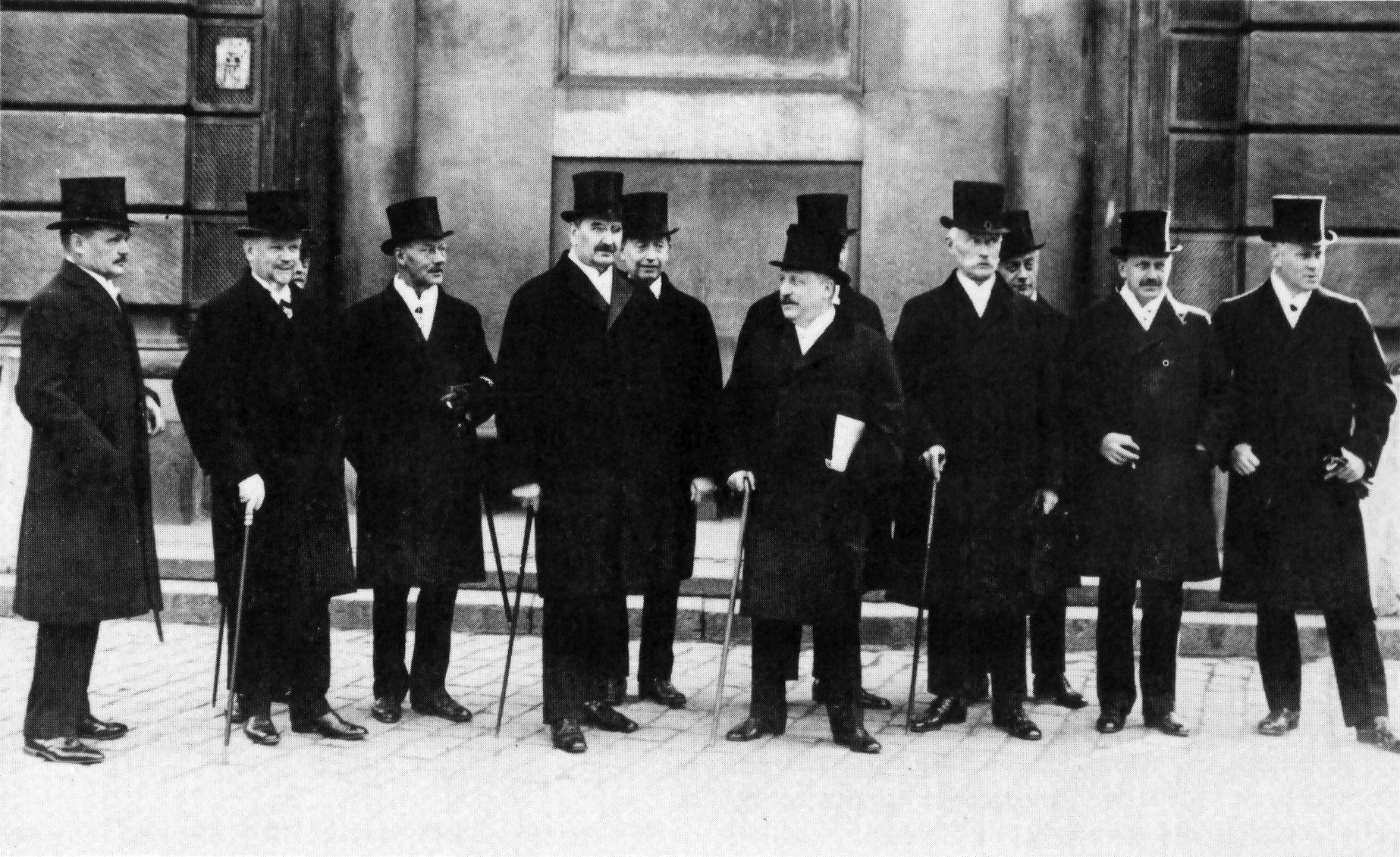 The first cabinet of Carl Gustaf Ekman (1926-1928). From left: Minister for Trade Felix Hamrin, Minister for Communications Carl Meurling, Minister for Social Affairs Jakob Pettersson (partly hidden), Minister for Eclesiastic Affairs Johan Almkvist, Prime Minister Carl Gustaf Ekman, Minister without Portfolio Sigurd Ribbing, Minister for Foreign Affairs Eliel Löfgren, Minister for Defense Gustav Rosén (partly hidden), Minister for Justice Johan Thyrén, Minister for Finance Ernst Lyberg, Minister without Portfolio Natanael Gärde, Minister for Agriculture Bo von Stockenström.